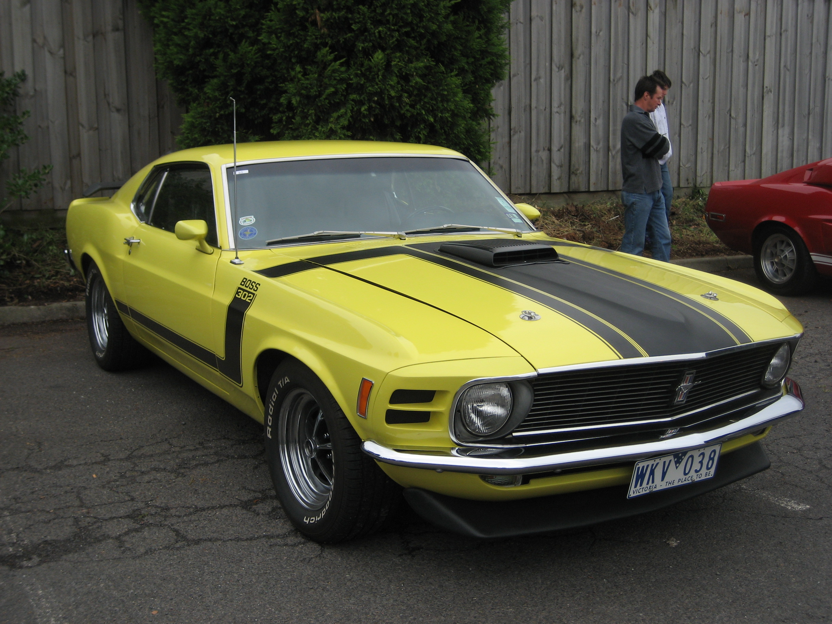 1454 made Bright Yellow Boss 302s were built for Trans Am racing; Engine; 290bhp (conservative); G code; 351 Cleveland heads on a Tunnel Port 302 Windsor Block. 7013 made